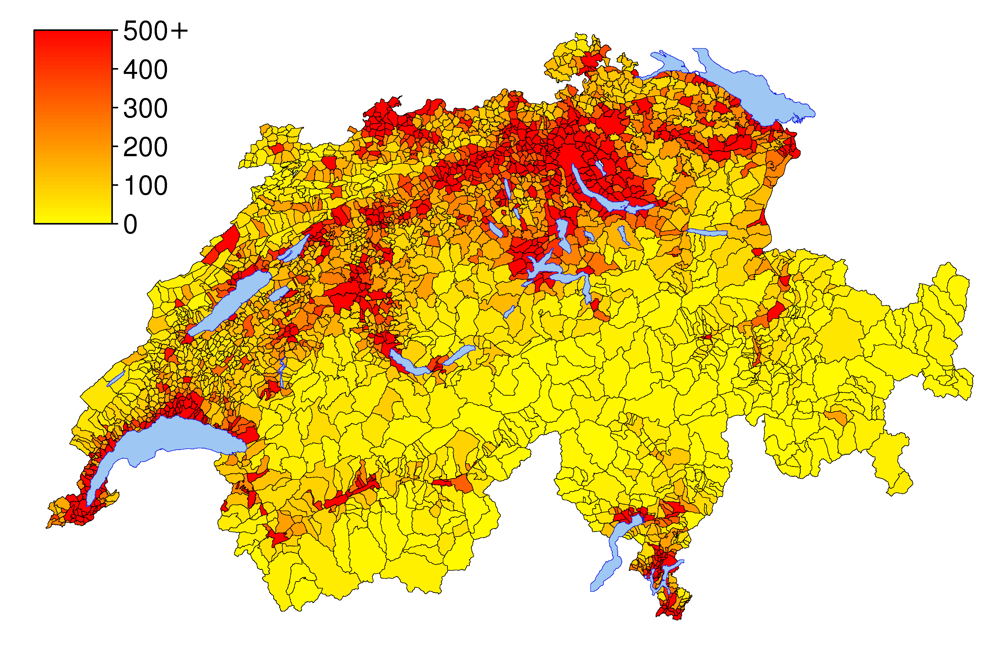 Population density in Switzerland in 2007. Statistical data from the Swiss federal statistical office; map data from Swisstopo.